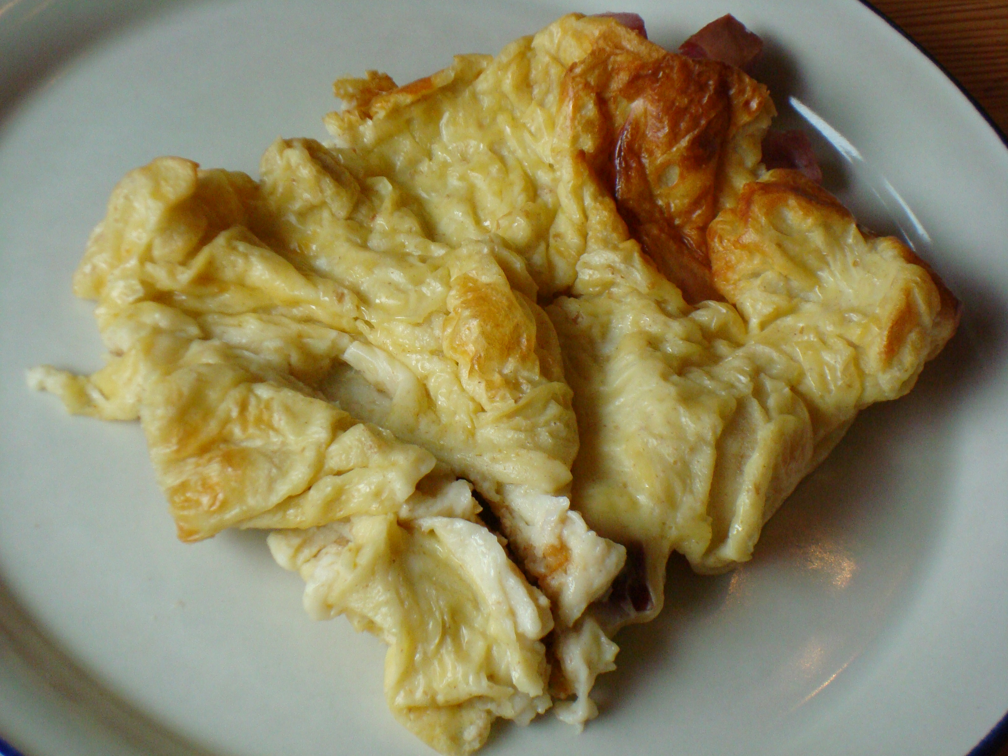 Swedish Fläskpannkaka. May be served with lingonberryjam.